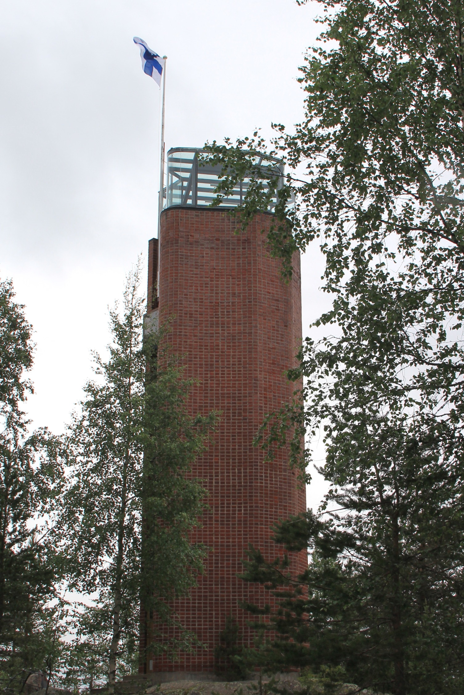 Aavasaksa observation tower, Ylitornio, Finland. - Seen from south. This is a photo of a monument in Finland identified by the ID 'Struve Geodetic Arc' (Q192243) - RKY: 4255